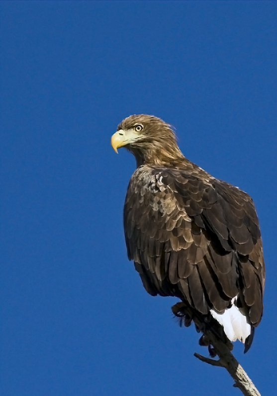 A wild White-tailed eagle, photographed in Danube Delta.